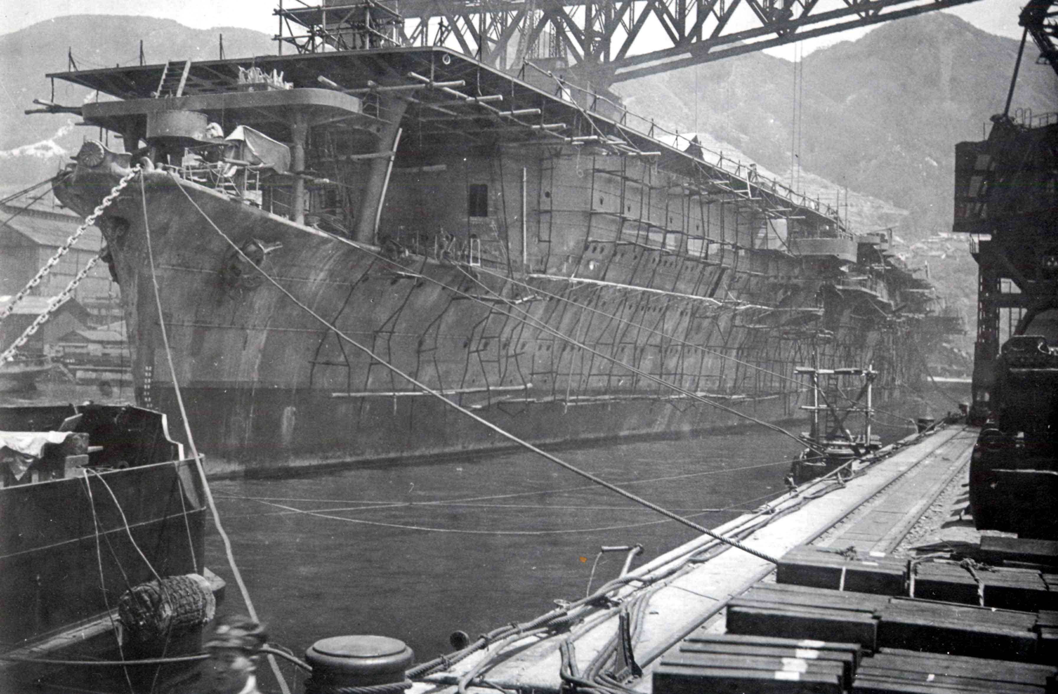 Soryu fitting out in Kure, early 1937.